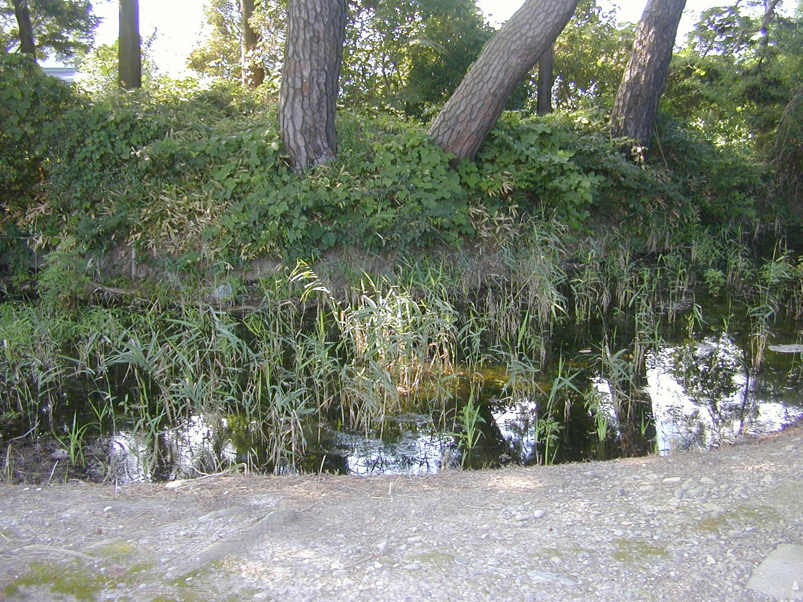 Tada homestead; designated as a cultural asset of Nagano Prefecture.